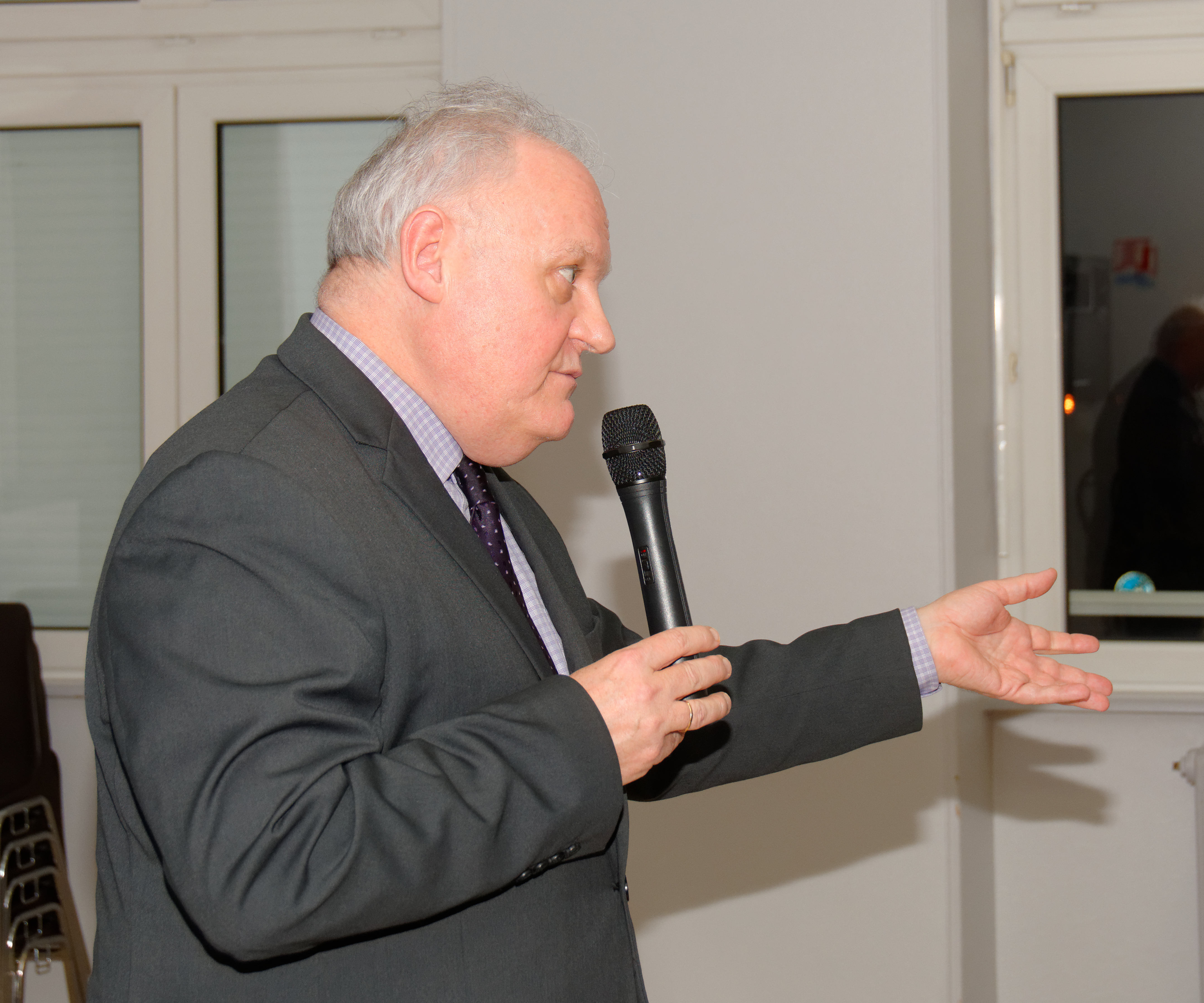 Personality rights warningAlthough this work is freely licensed or in the public domain, the person(s) shown may have rights that legally restrict certain re-uses unless those depicted consent to such uses. In these cases, a model release or other evidence of consent could protect you from infringement claims.